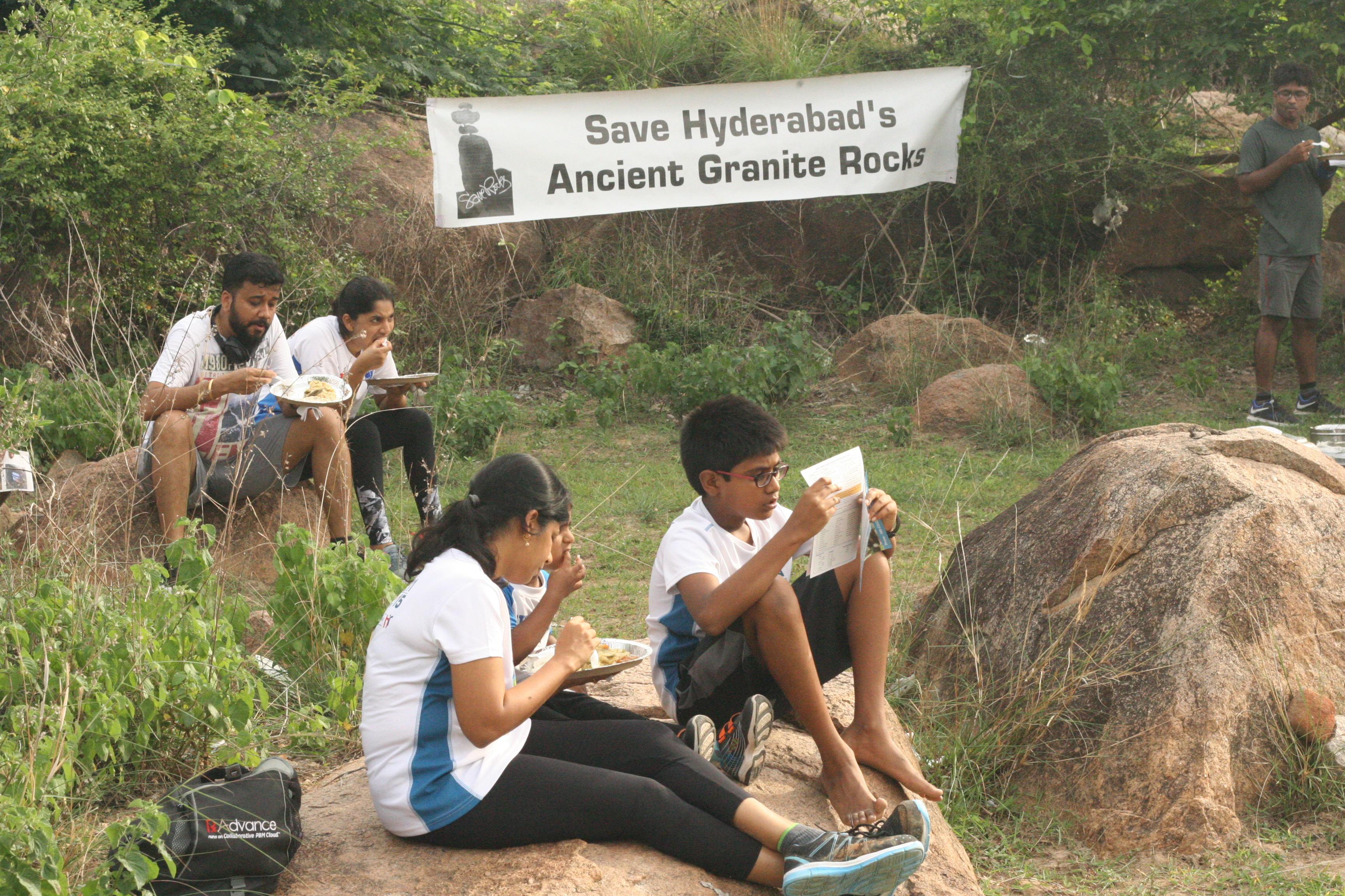 Rock walk